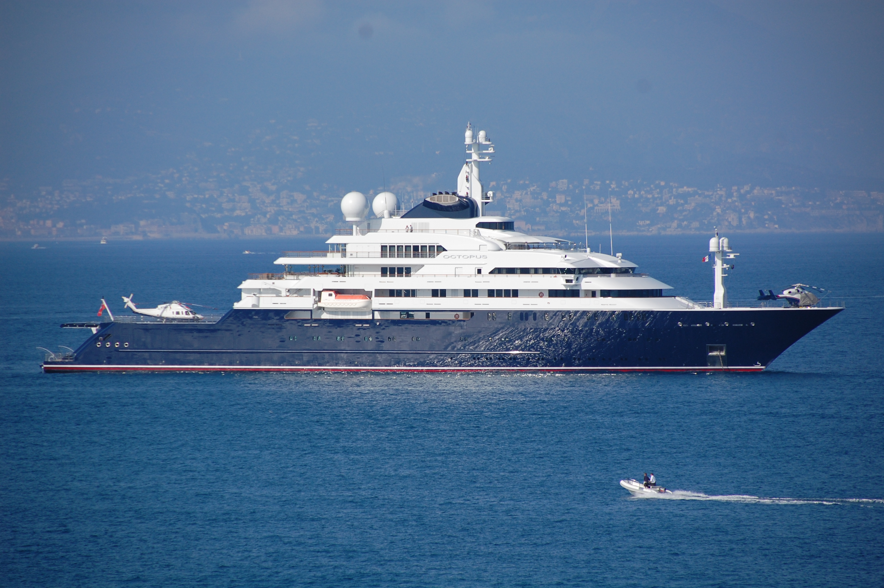 "Octopus" seen from Antibes